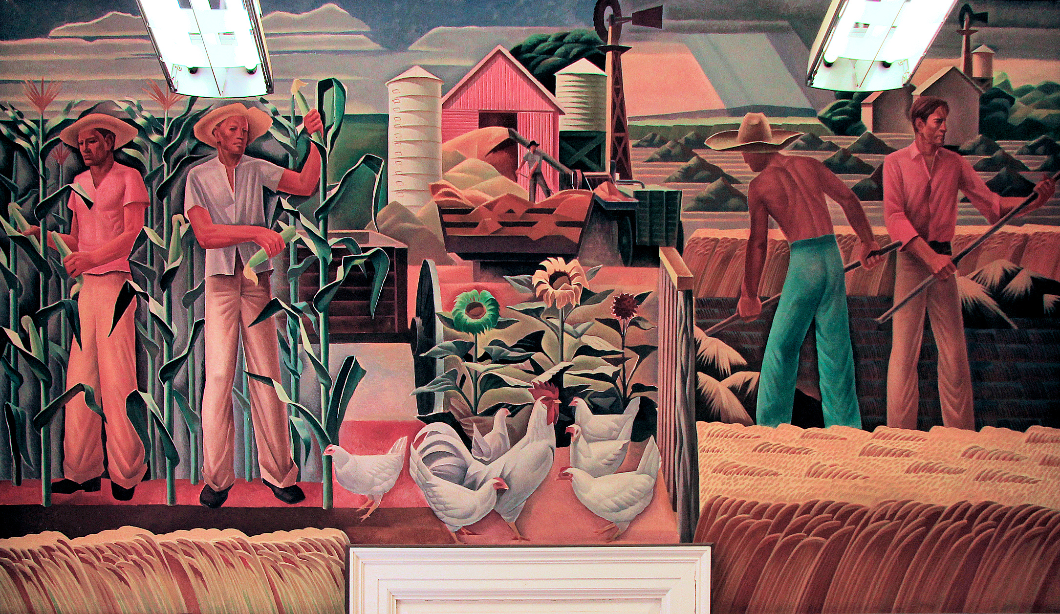 Texas Farm by Julius Woeltz, 1940, Oil on Canvas. Located in the Elgin Post Office, Elgin, Texas, United States.